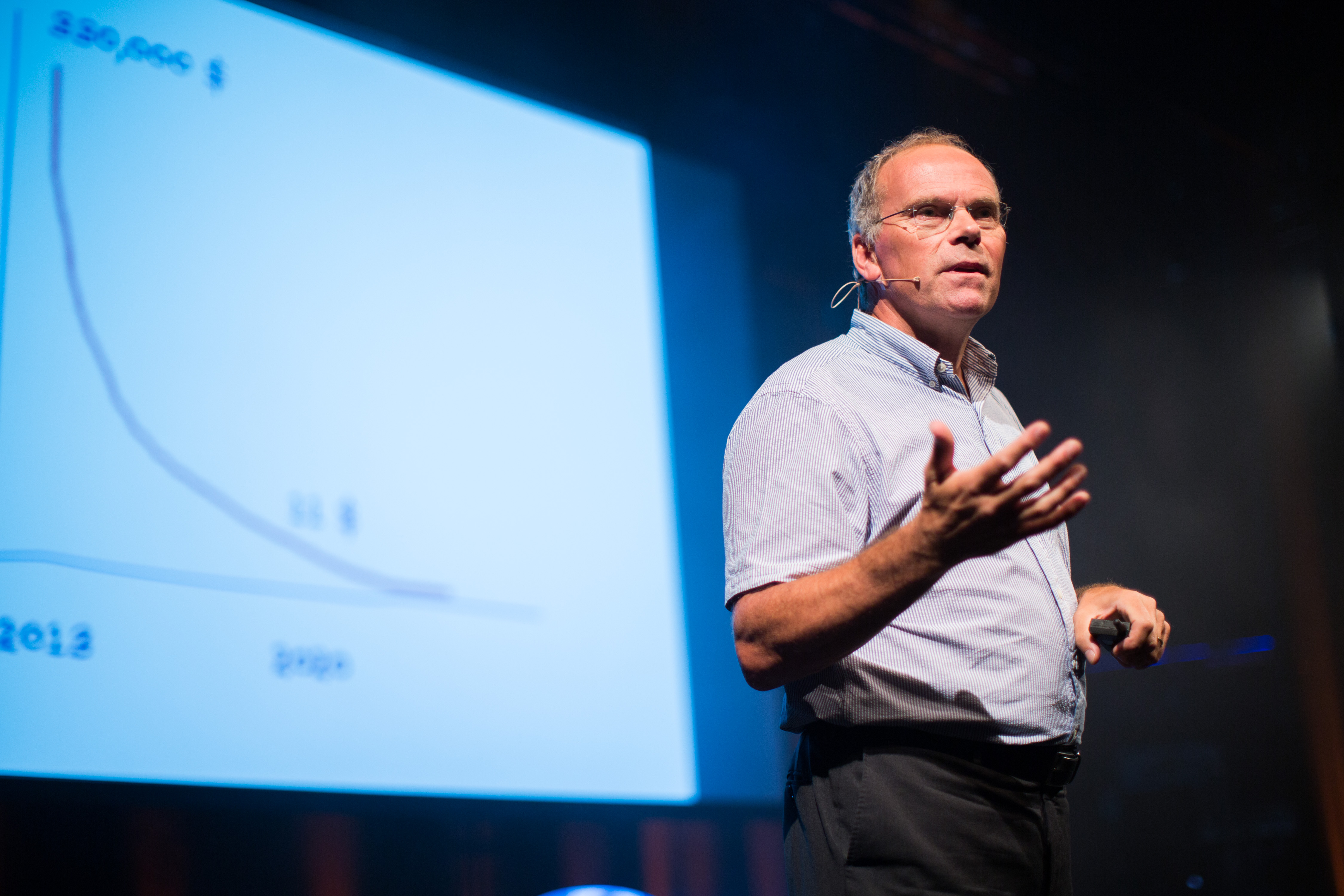 The SingularityU The Netherlands Summit 2016 took place on September 12 & 13 in Amsterdam, The Netherlands. The Netherlands Summit was aimed at bringing awareness about exponential technologies and their impact on business and policy. The theme of the summit was "Reality Check - Fast-Forward into our Future". For more information